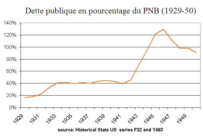 Evolution of the national debt in the USA between 1929 and 1950